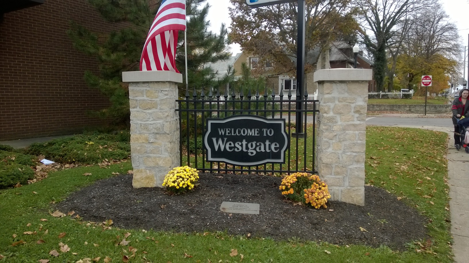 Westgate Neighborhood Sign, Columbus, OH